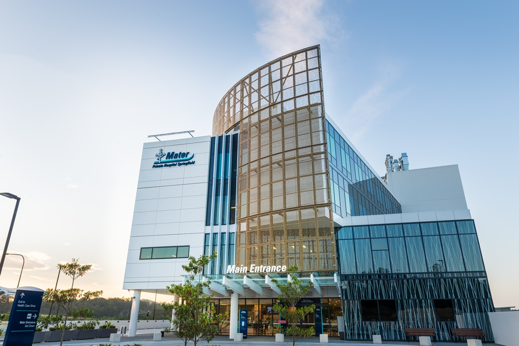 Main entrance of the Greater Springfield Mater Private Hospital located at 30 Health Care Dr, Springfield Central.